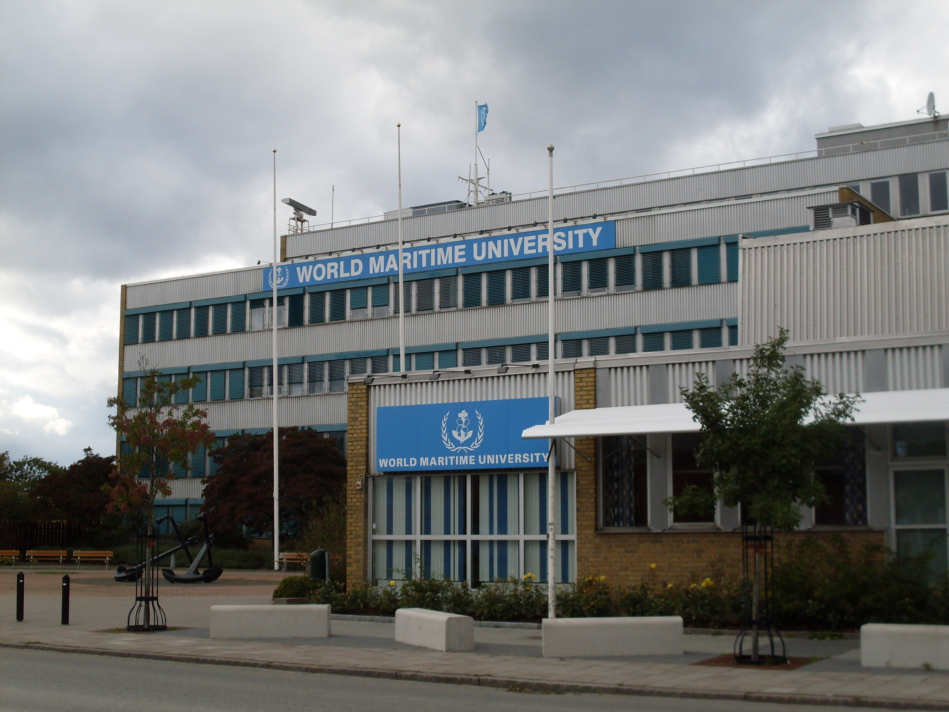 Maritime University of the UN in Malmo, Sweden.